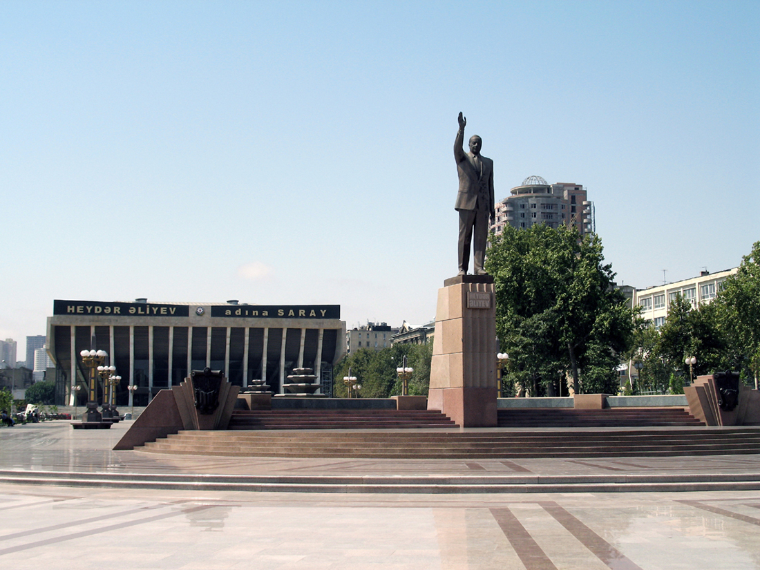 Geydar Aliyev monument, Baku